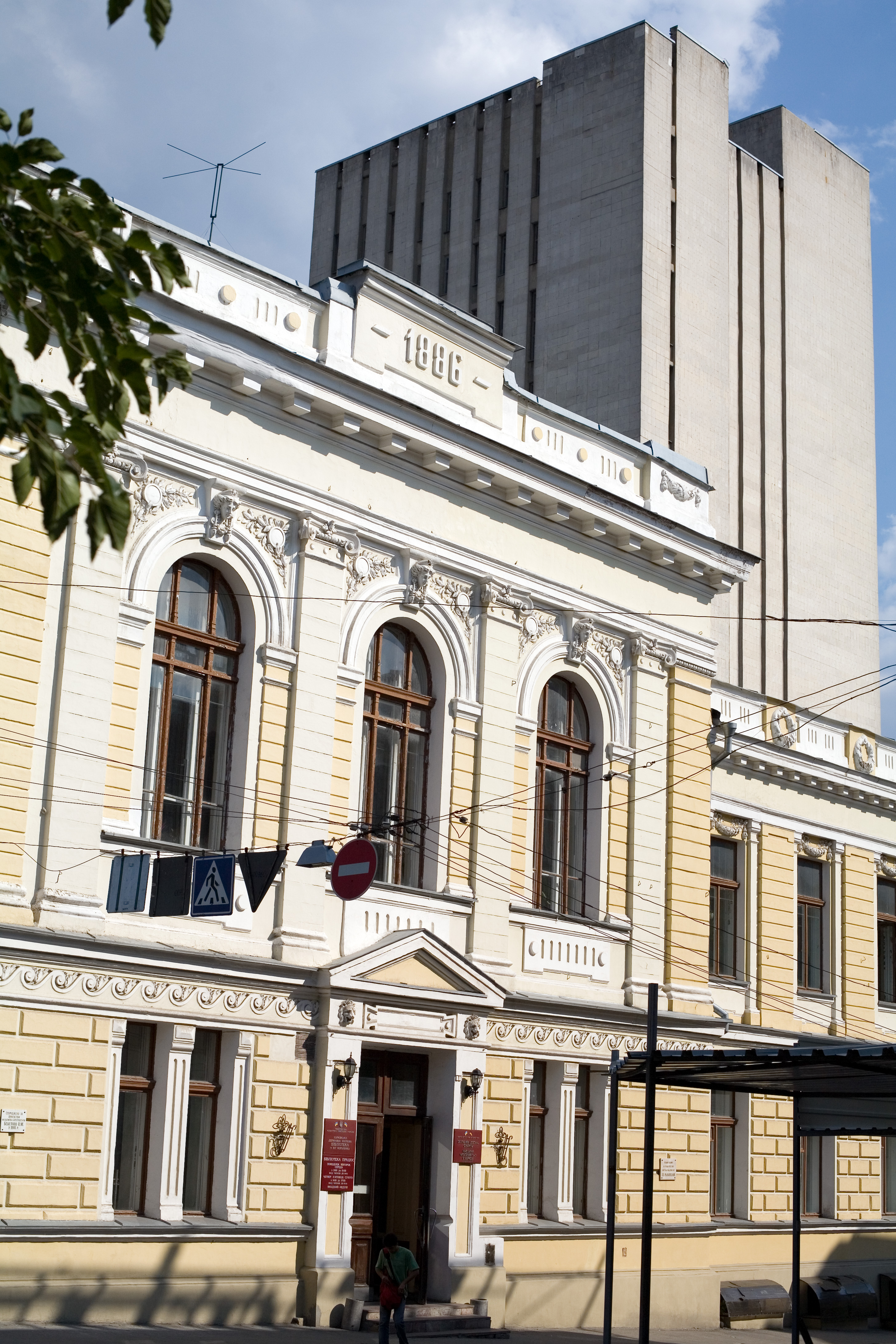 Korolenko Library, Kharkov. 1901